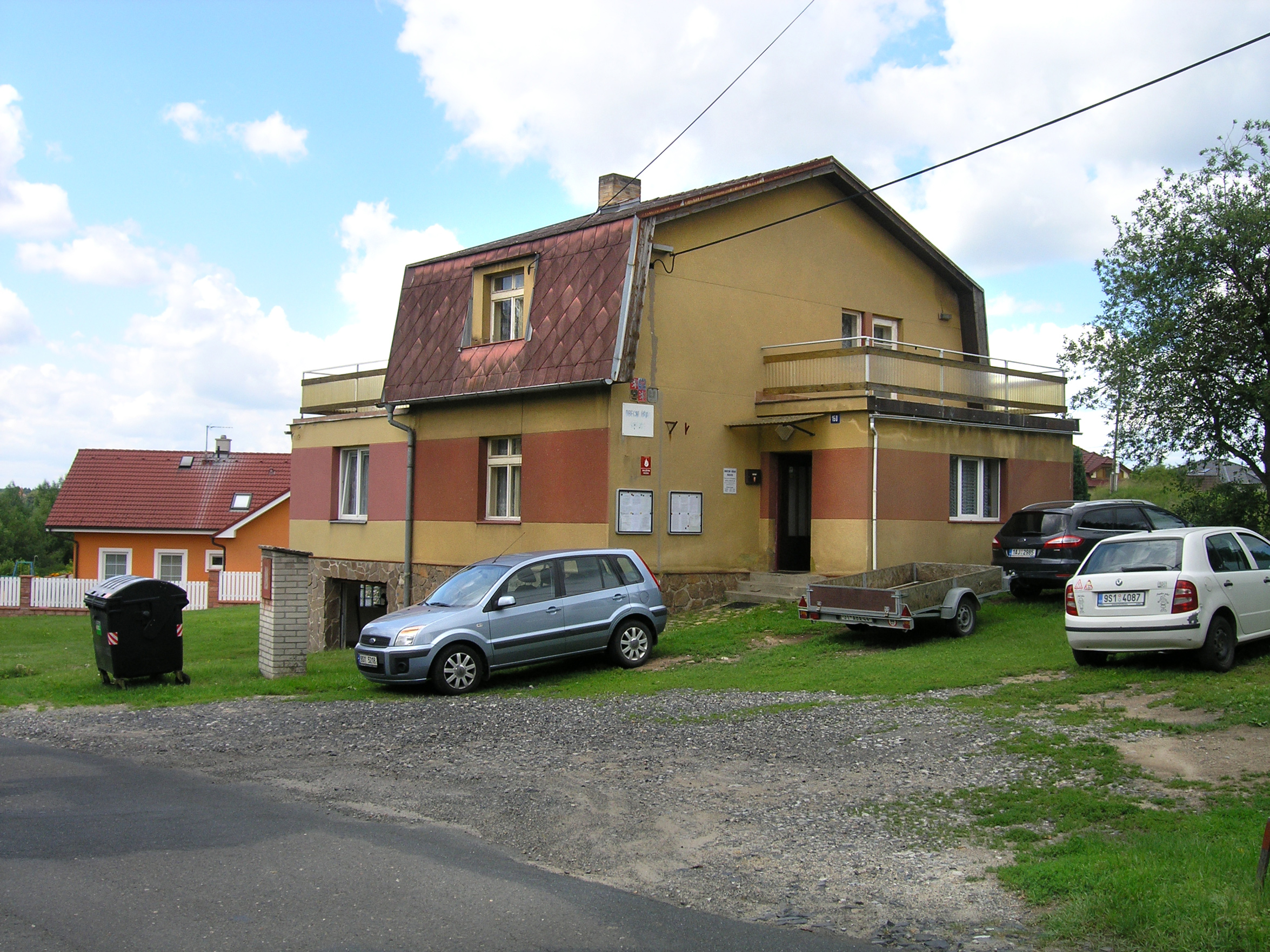 Municipal office of Sulice village, Czech Republic